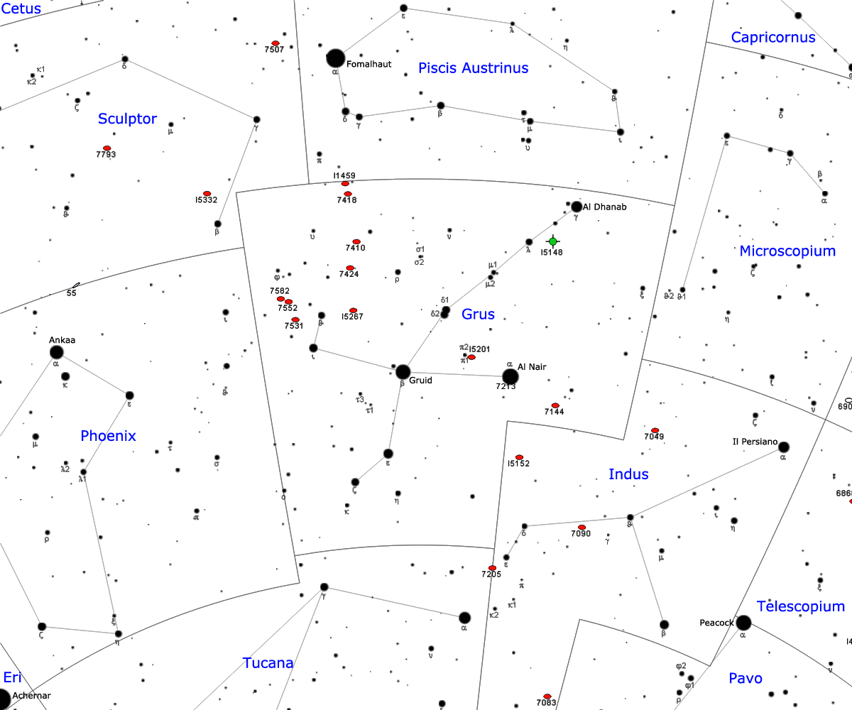 Map of Grus